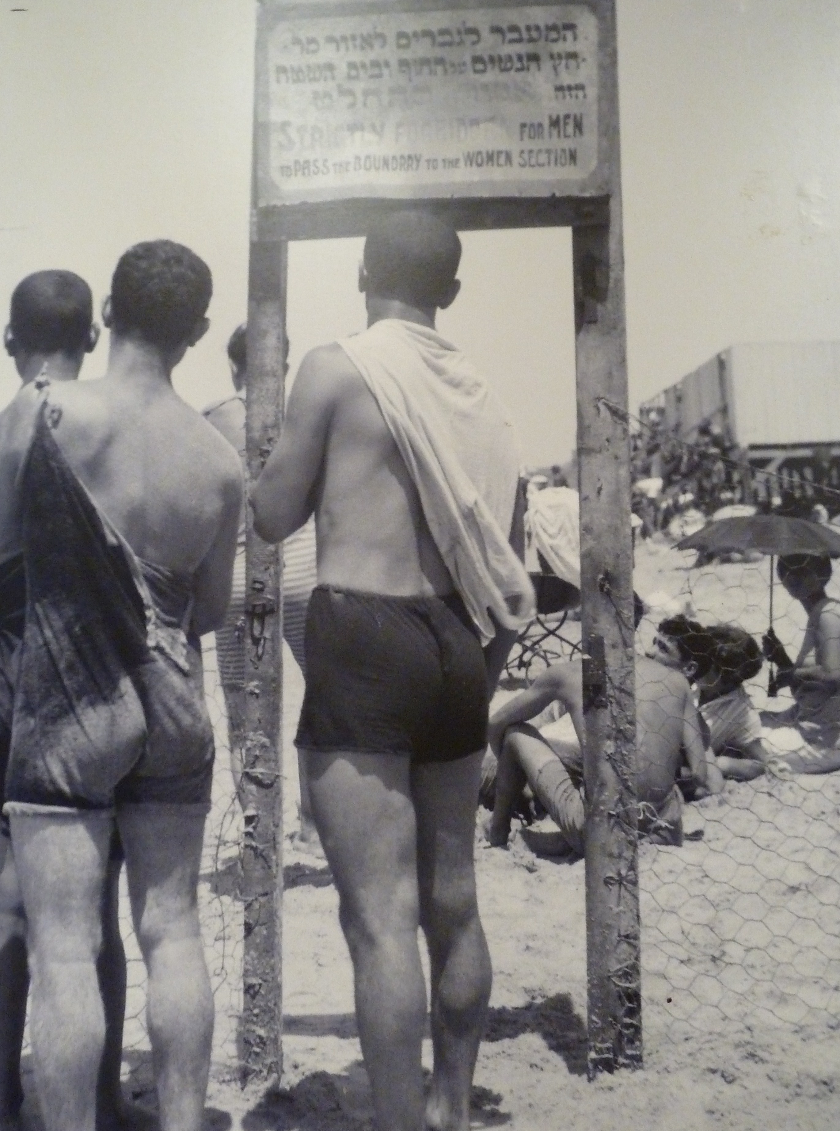 Images by Shimon Korbman, Shalom Meir Tower, Tel Aviv